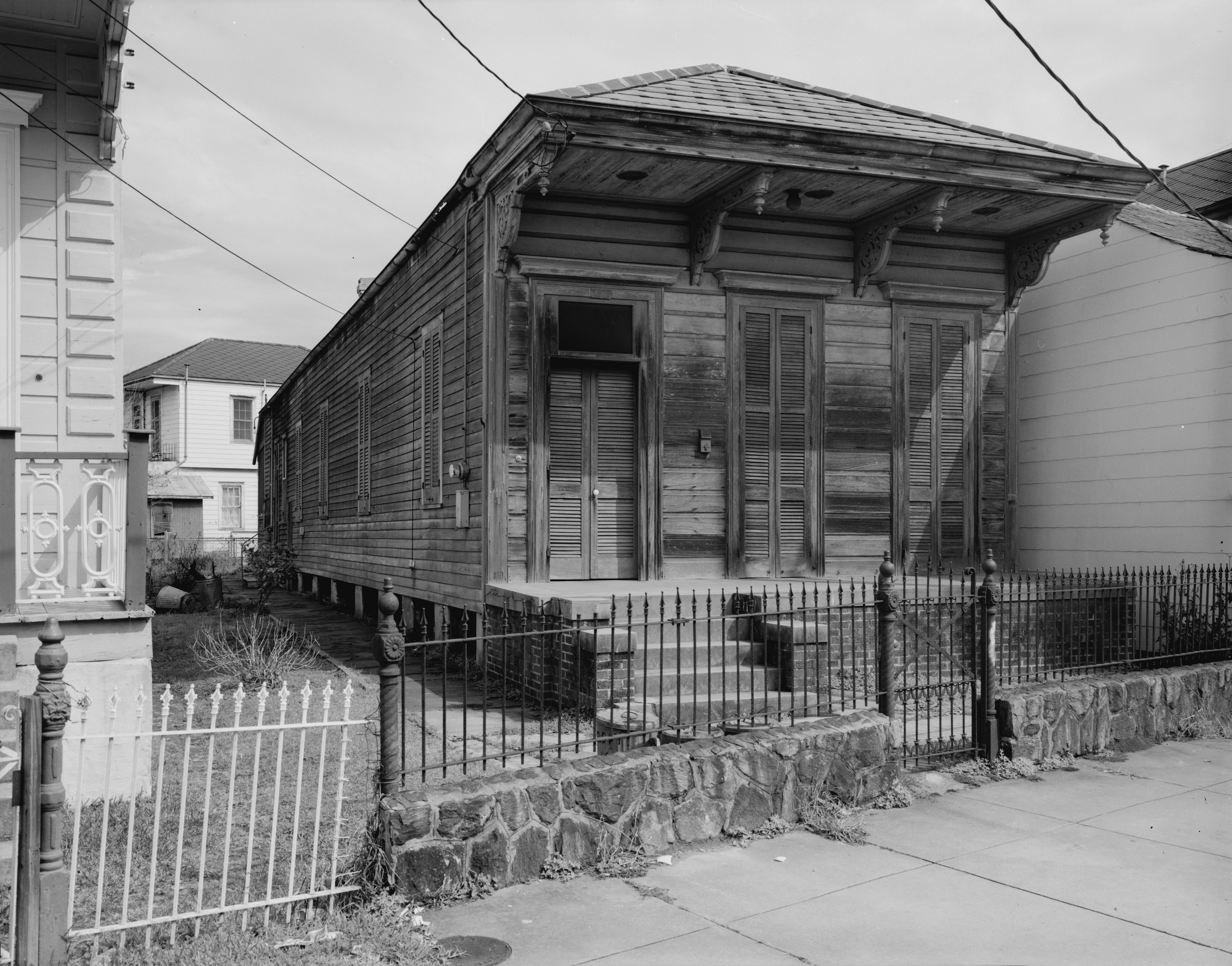 Street (front) view of house at 2519 Dauphine Street, Faubourg Marigny section, New Orleans.